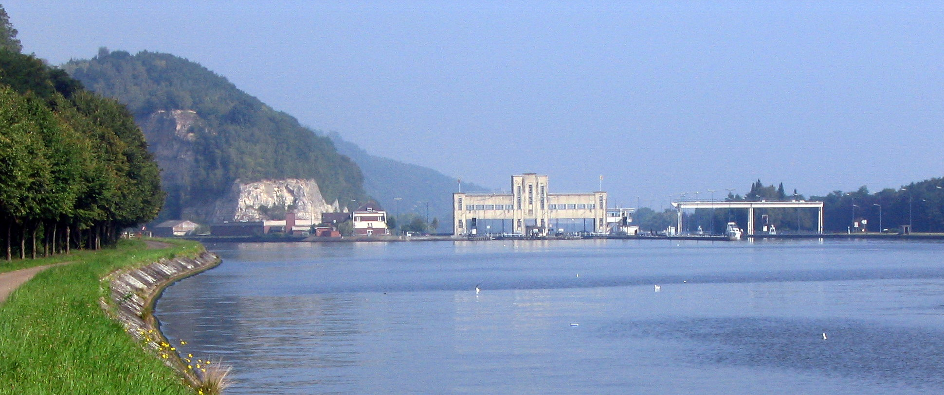 View of Albert Canal and the sluices of Petit-Lanaye (Klein-Ternaaien) in Belgium. To the left: Mount Saint Peter (Sint-Pietersberg), South of Maastricht, Netherlands.